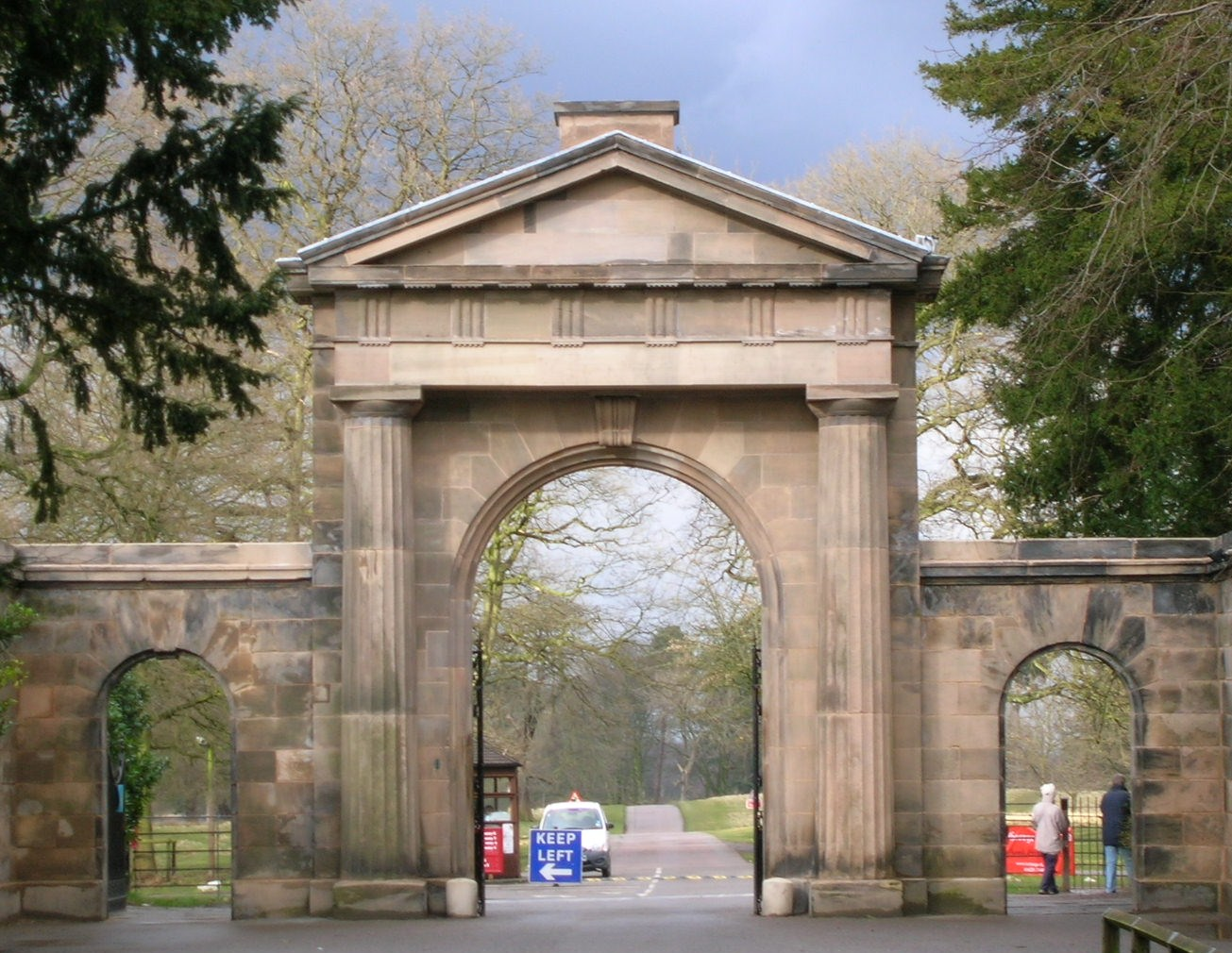 Gates to Tatton Park- entrance from Knutsford. This gate can be seen briefly in tv episode "The Speckled Band" (1984) from the series The Adventures of Sherlock Holmes starring Jeremy Brett as Sherlock Holmes.